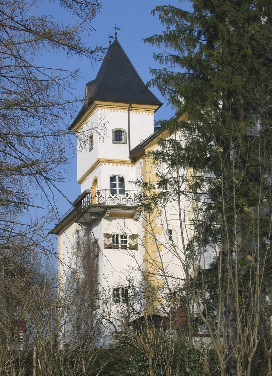 Wagrain Castle near Ebbs. Main building as seen from south west.